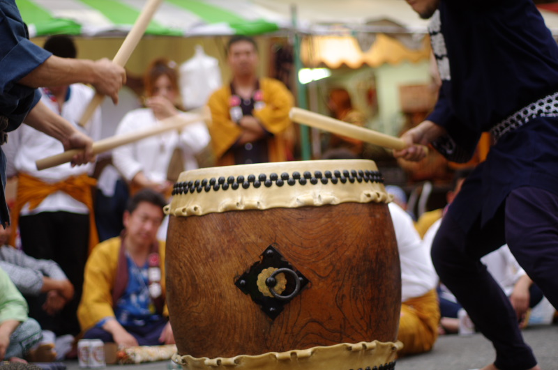 A performance in the Yoshiwara-gion festival, Fuji City, Shizuoka, Japan.